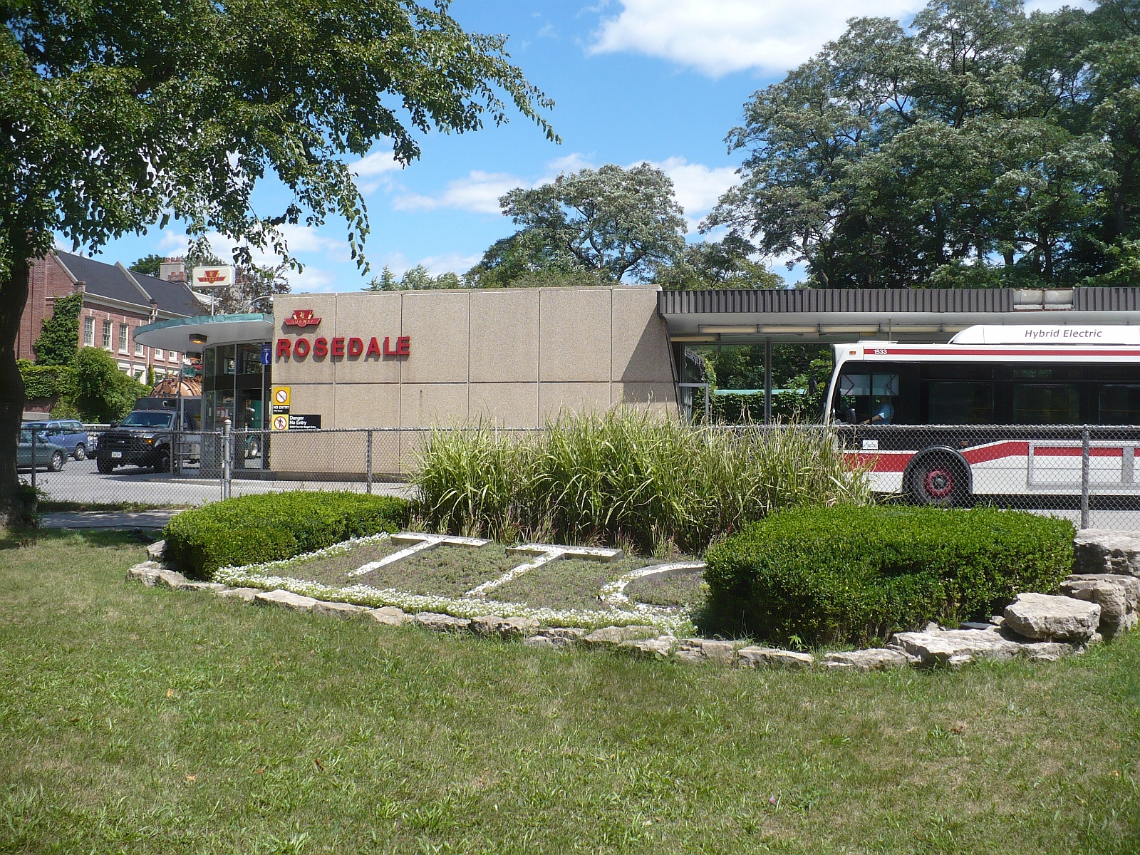 Rosedale subway station in Toronto